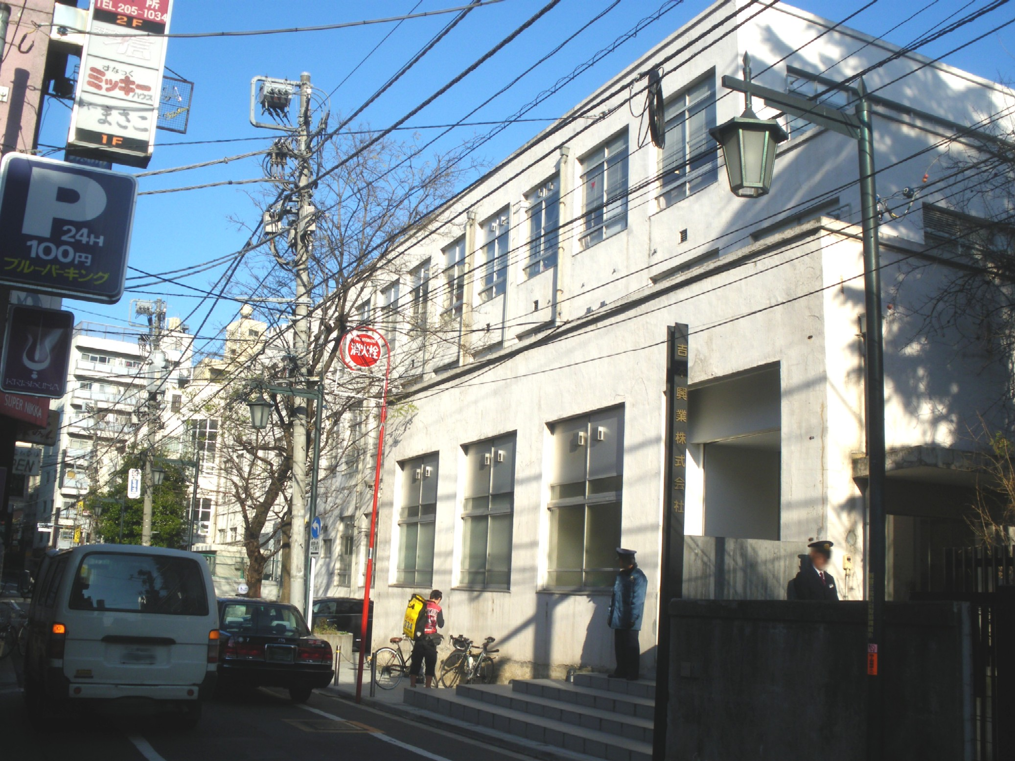 photo of Yoshimoto Kogyo(a major Japanese entertainment conglomerate) Tokyo Head Office. Shinjuku,Shinjuku-ku,Tokyo,Japan.